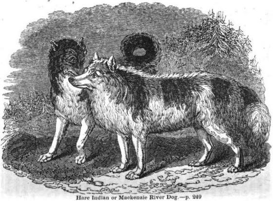 Illustration of Hare Indian dogs from The Gardens and Menagerie of the Zoological Society